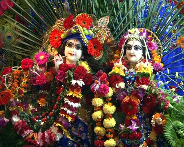 People worshiping lord Krishna in During Janmasthami.